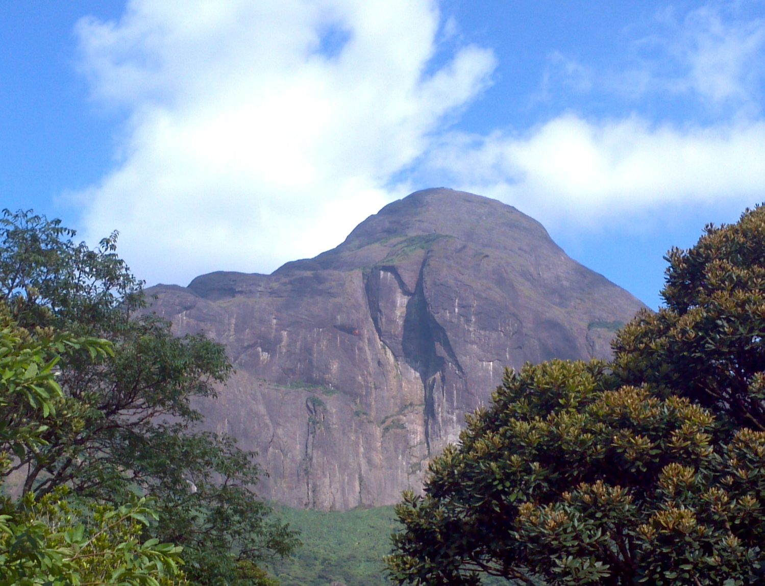 Image of Agastya Mala taken from Athirumala base camp